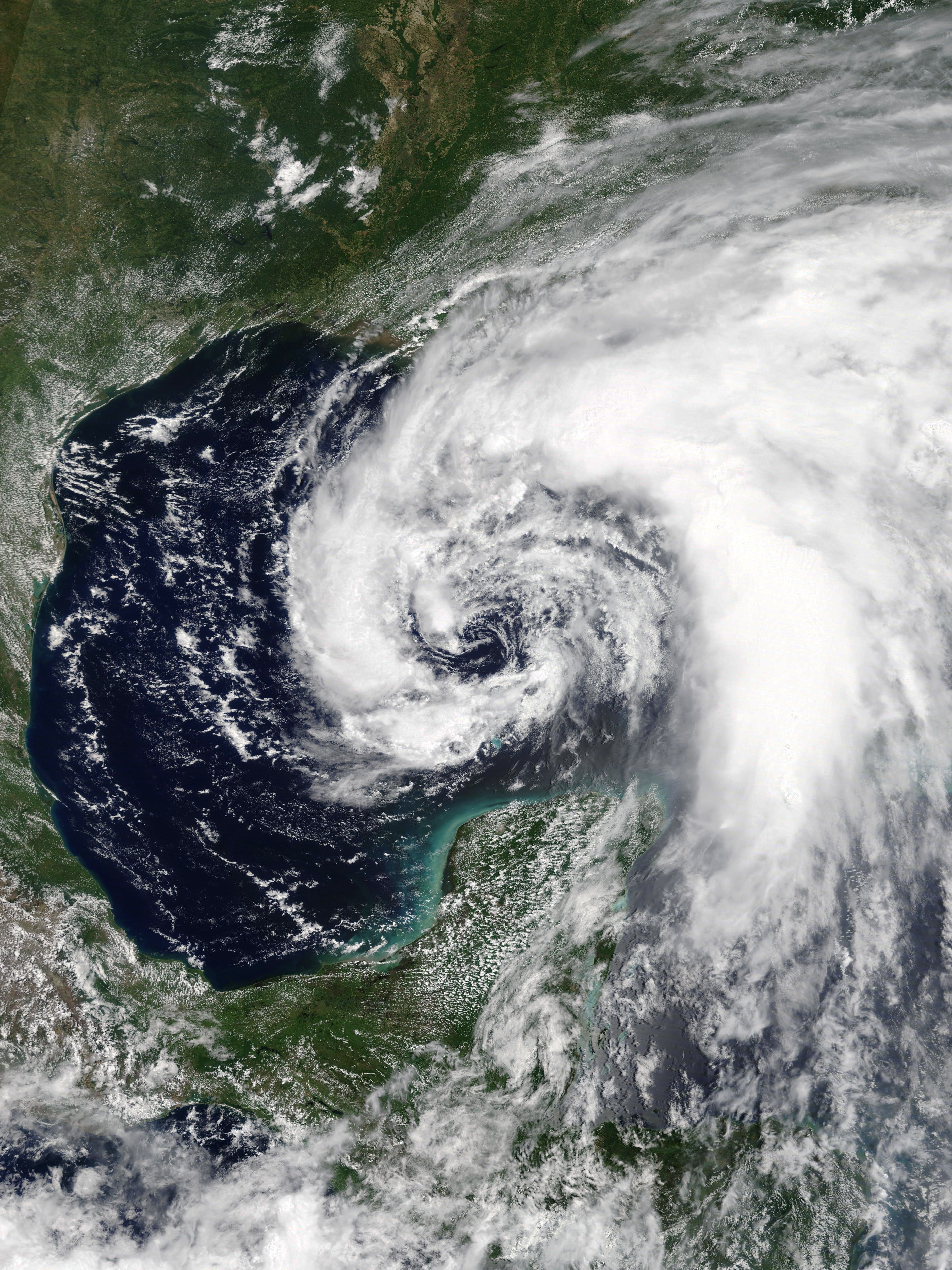 Tropical Storm Cristobal over the central Gulf of Mexico on June 6, 2020